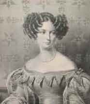 Princess Luise of Anhalt-Bernburg (1799-1882), Princess Frederick of Prussia